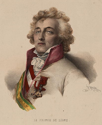 Belgian writer, field-marshal and diplomat Charles-Joseph de Ligne (1735-1814)